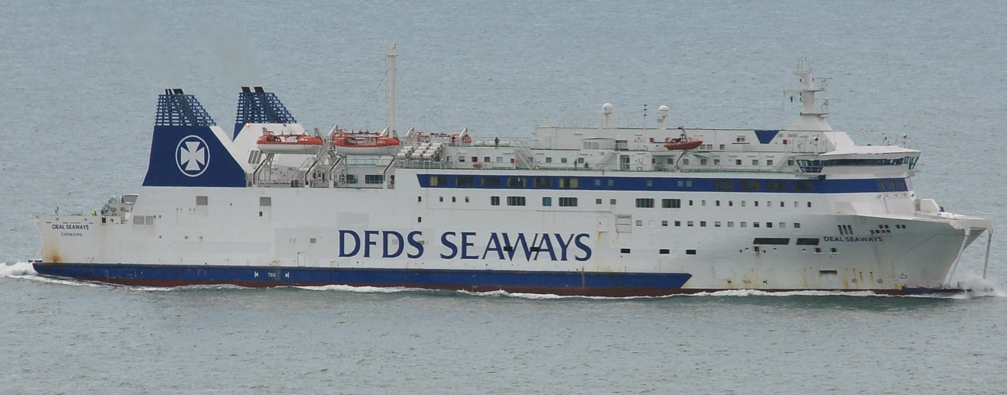 The ferry Deal Seaways off the White Cliffs of Dover.